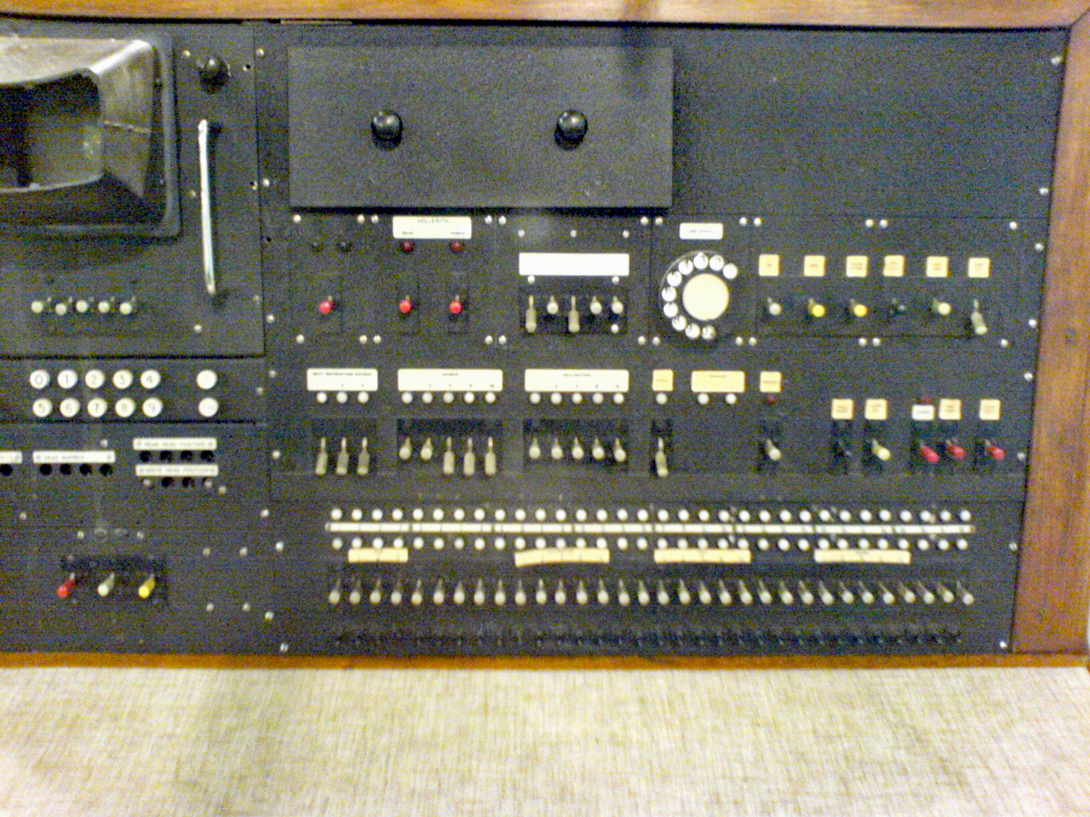 Pilot ACE The Vacuum Tube computer had awesome dials, where you entered the commands and data using binary switches :cool